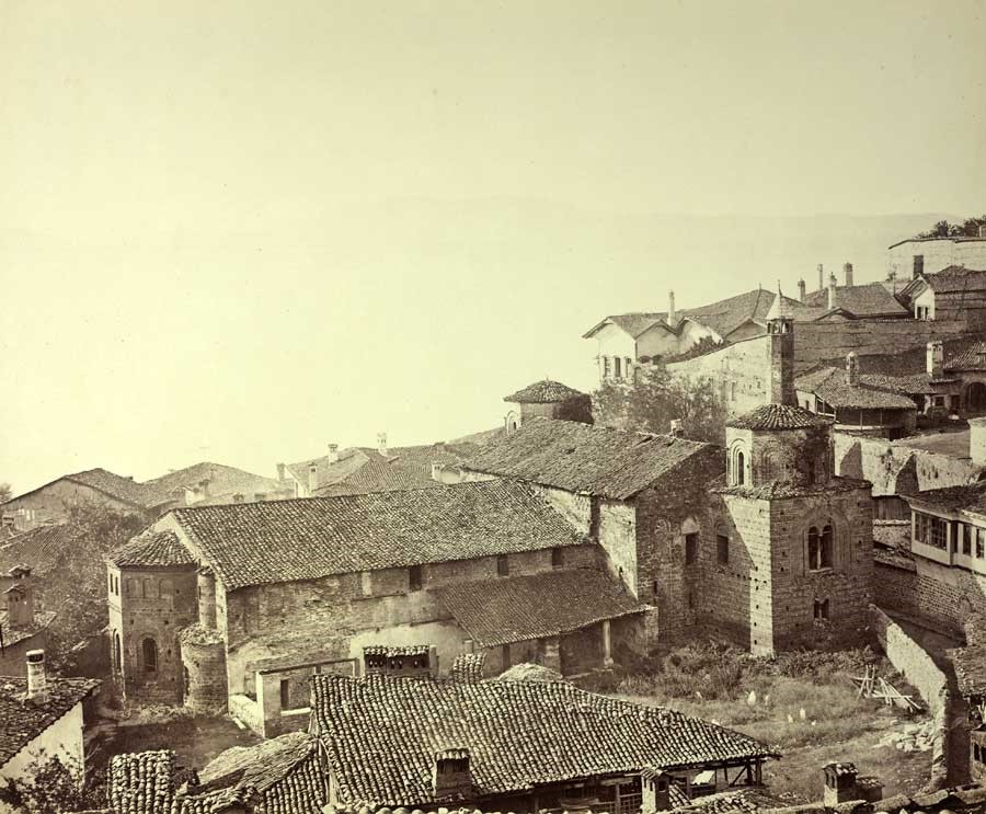 Josef Székely VUES IV 41076 Ohrid: Sophia mosque seen from the eastern side. End of September 1863